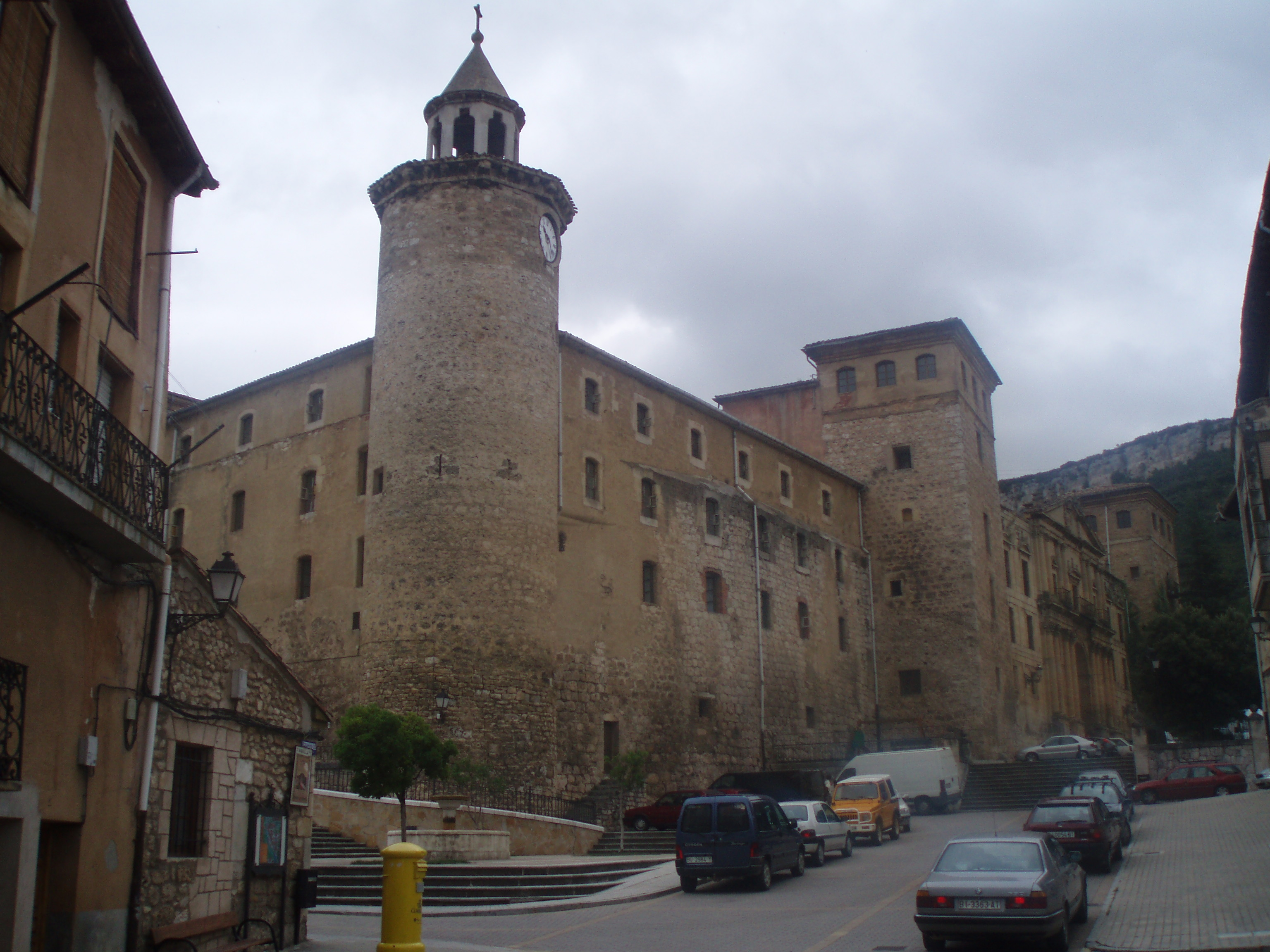 Monastery of Oña, in province of Burgos. (Spain).